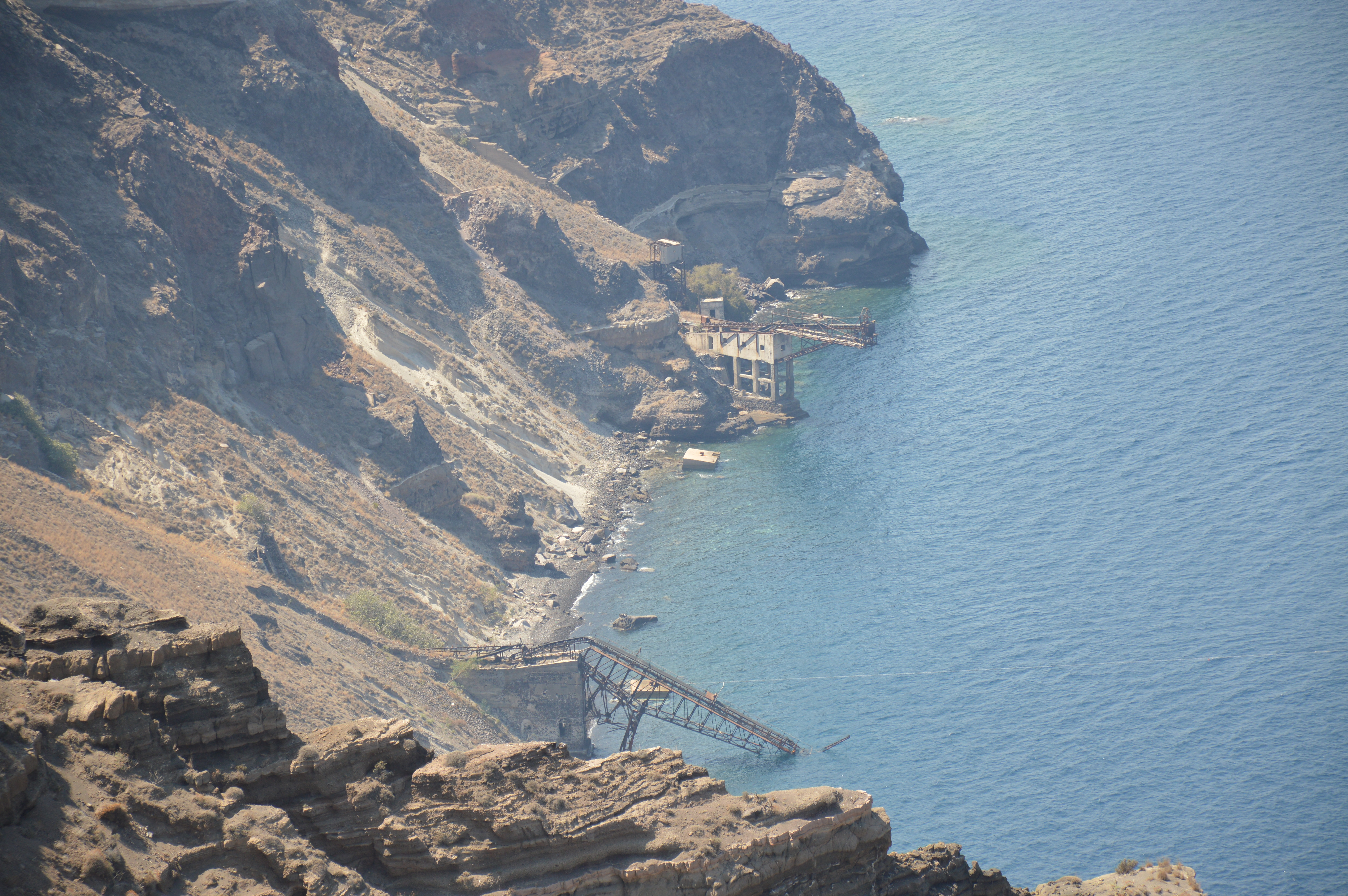 Ship loading installation for Santorin earth